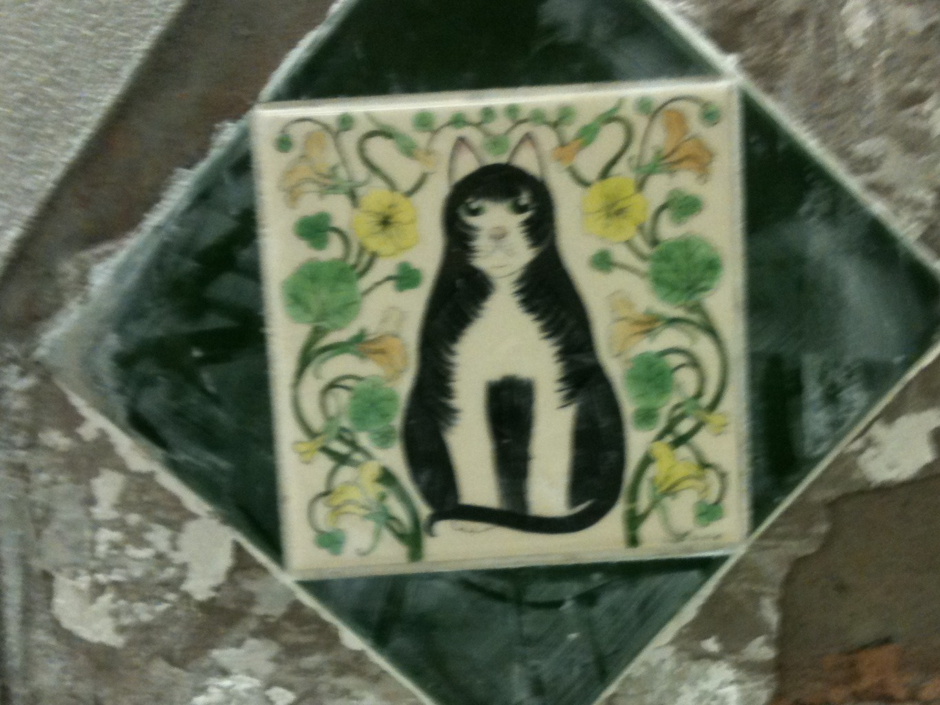 about 1 foot from the ground opposite the automatic barriers